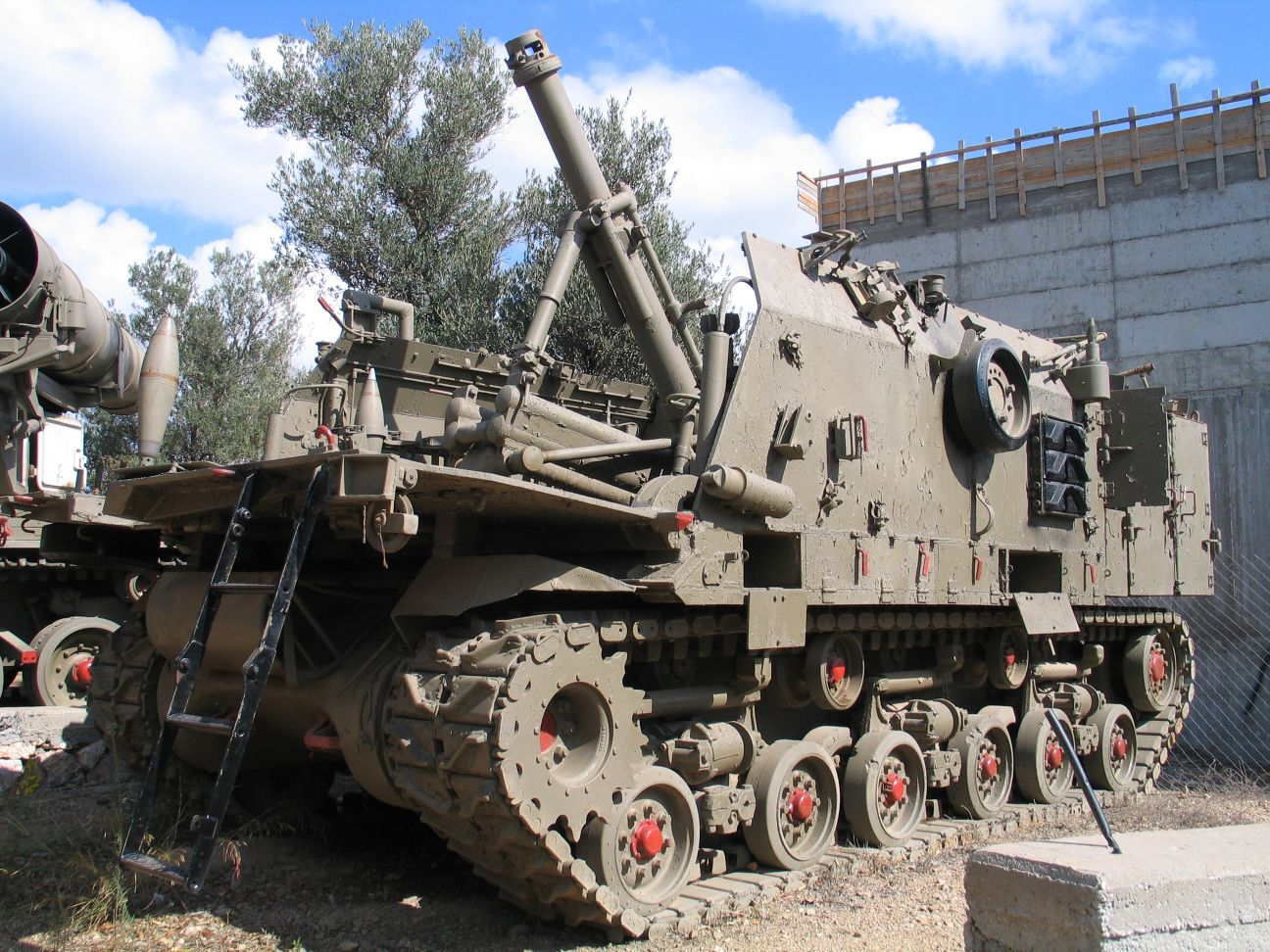 Description: Israeli Makmat 160 mm ("Makmat" stands for heavy self-propelled mortar) in Beyt ha-Totchan, Zichron Yaakov, Israel. 2005. Source: Photo by me, User:Bukvoed.